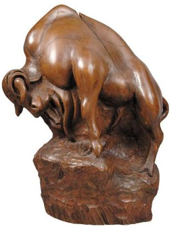 Photo of sculpture of bison, made by Serbian sculptor Matija Vuković in 1956., wood, height approx. 40 cm